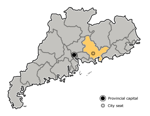 The prefecture-level city of Huizhou is highlighted on this map of Guangdong province, People's Republic of China.